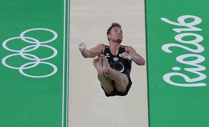 Andreas Bretschneider, gymnastics at the 2016 Summer Olympics